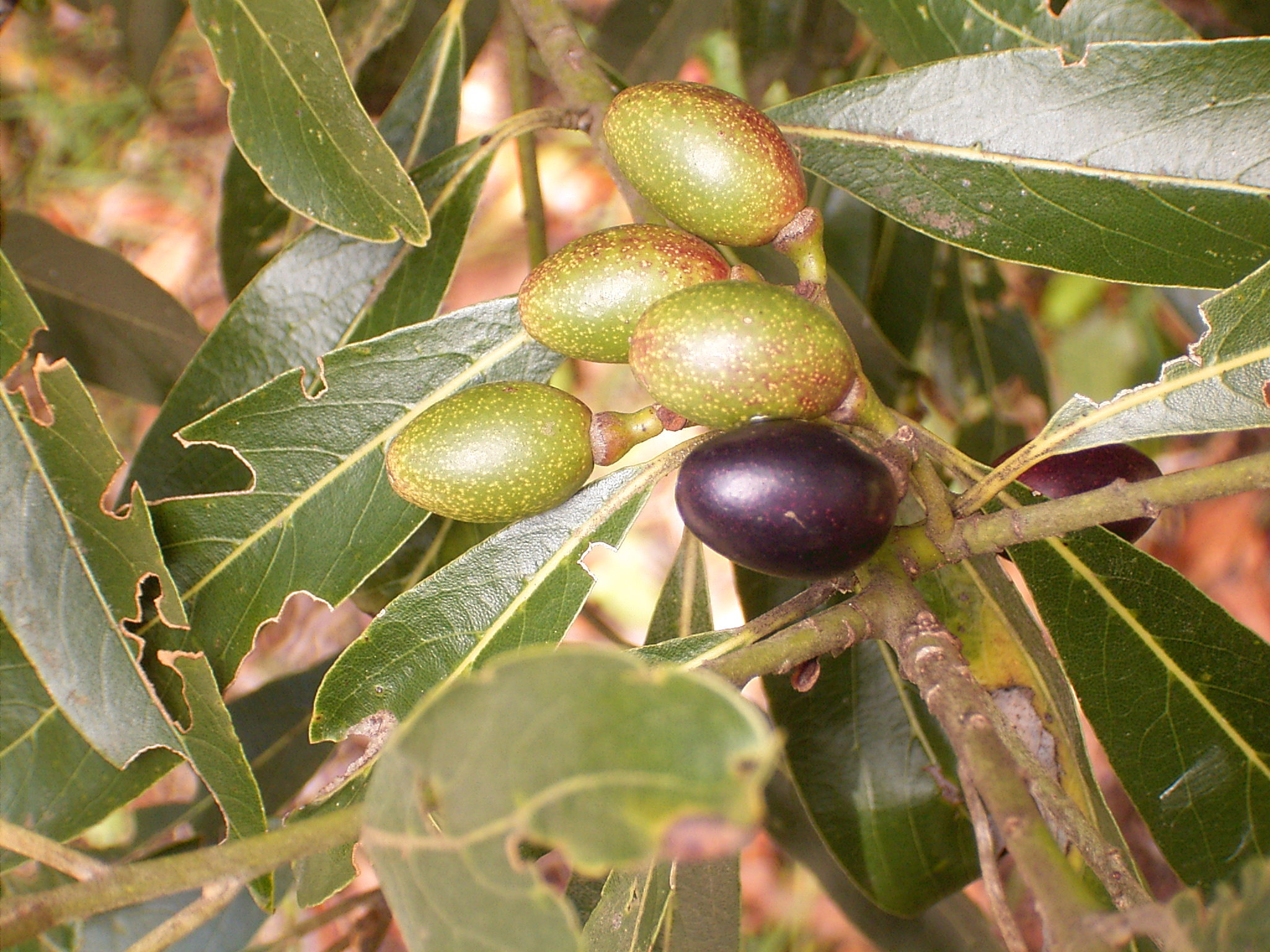 Laurus novocanariensis growing in Garafía, La Palma, Canary Islands